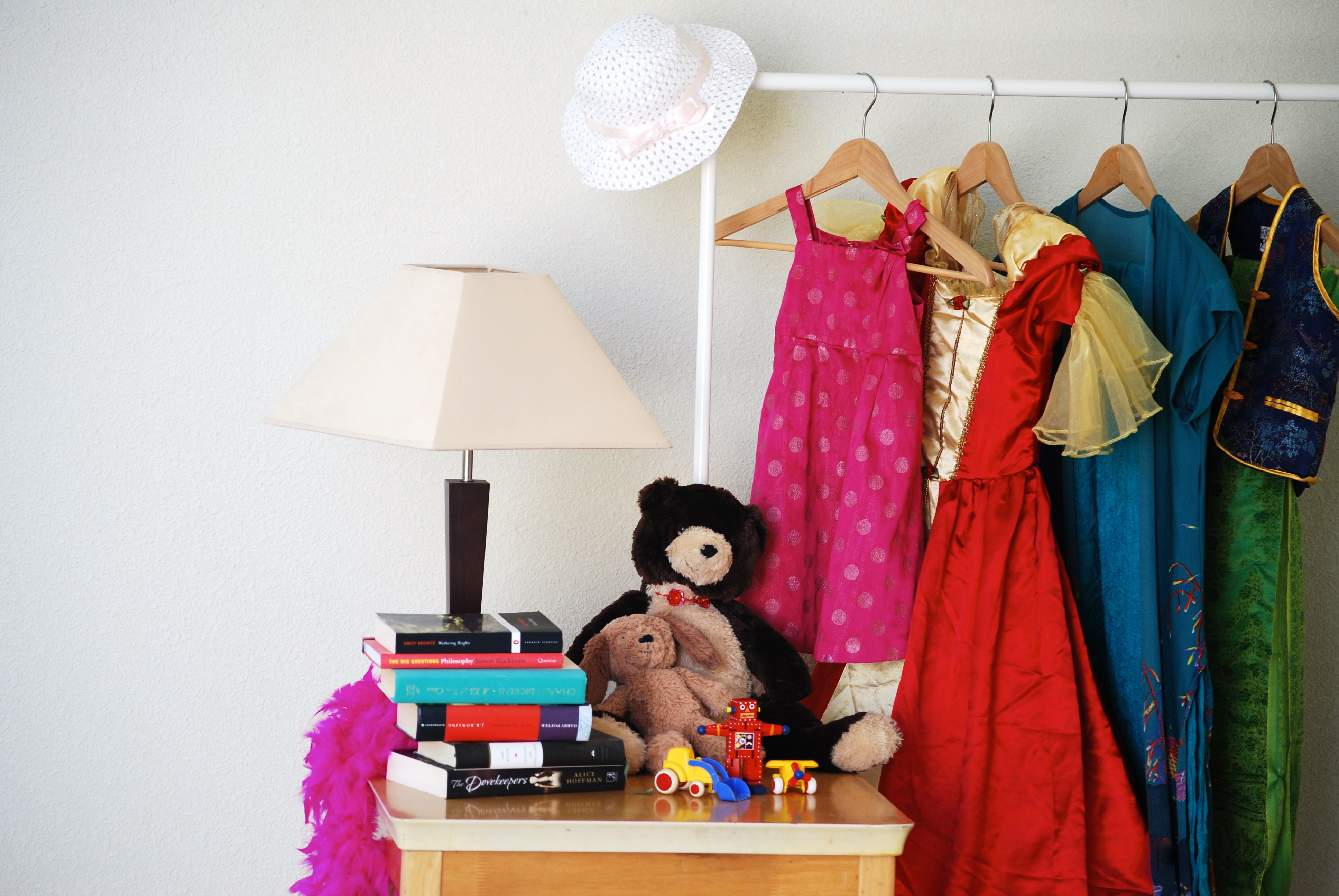 yard sale, rummage sale, garage sale, tag sale, charity sale, used stuff, clothes, bear, lamp, books